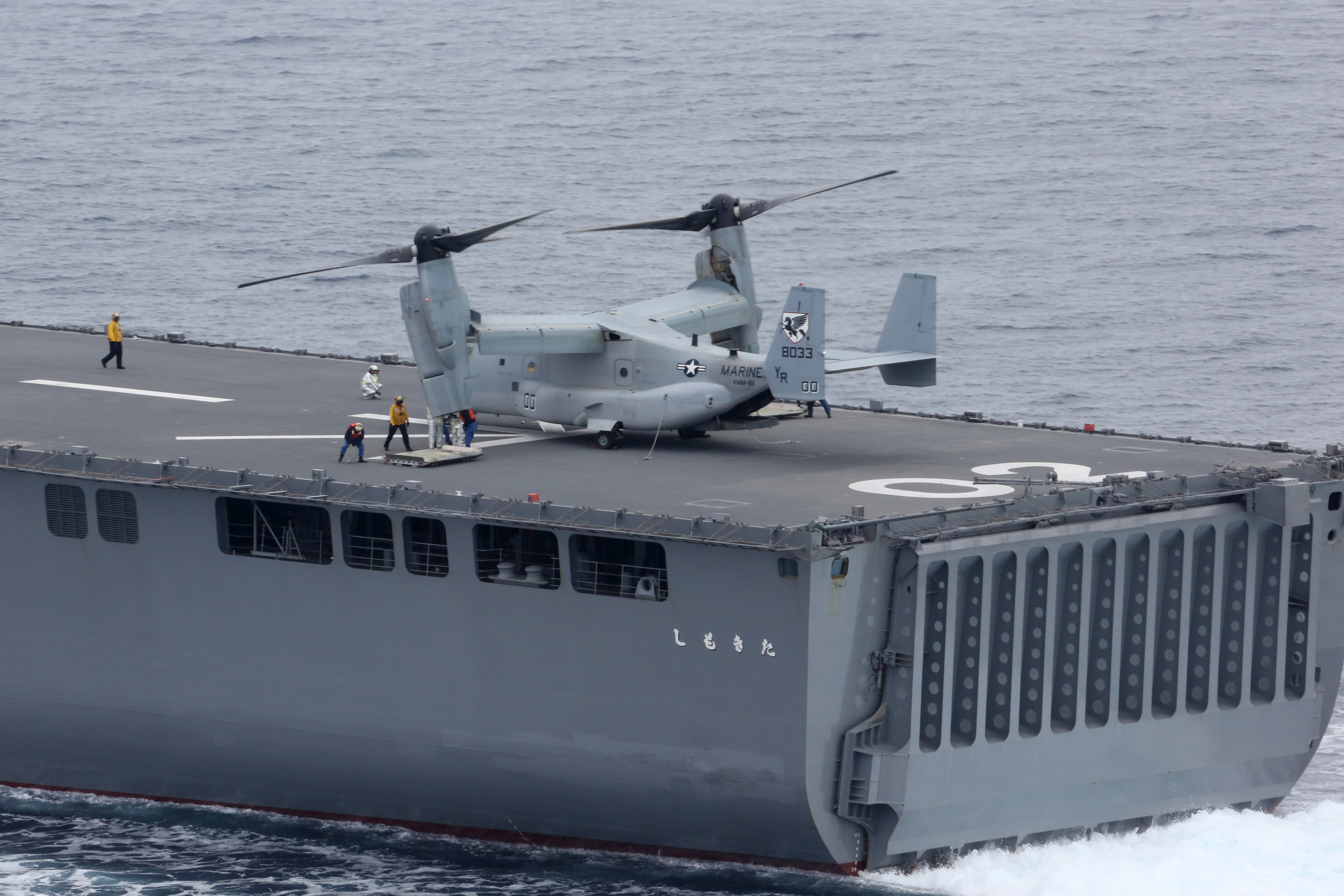 PACIFIC OCEAN (June 14, 2013) An MV-22B Osprey with Marine Medium Tiltrotor Squadron 161 sits aboard the Japan Maritime Self-Defense Force ship JS Shimokita after landing aboard during exercise Dawn Blitz. Dawn Blitz is a scenario-driven exercise led by the U.S. 3rd Fleet and 1 Marine Expeditionary Force that will test participants in the planning and execution of amphibious operations through a series of live training events.